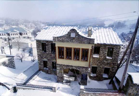 Outside view, image from the Museum of Gold and Silver -smithery, Folklore, and History, Nymfaio, West Macedonia, Greece